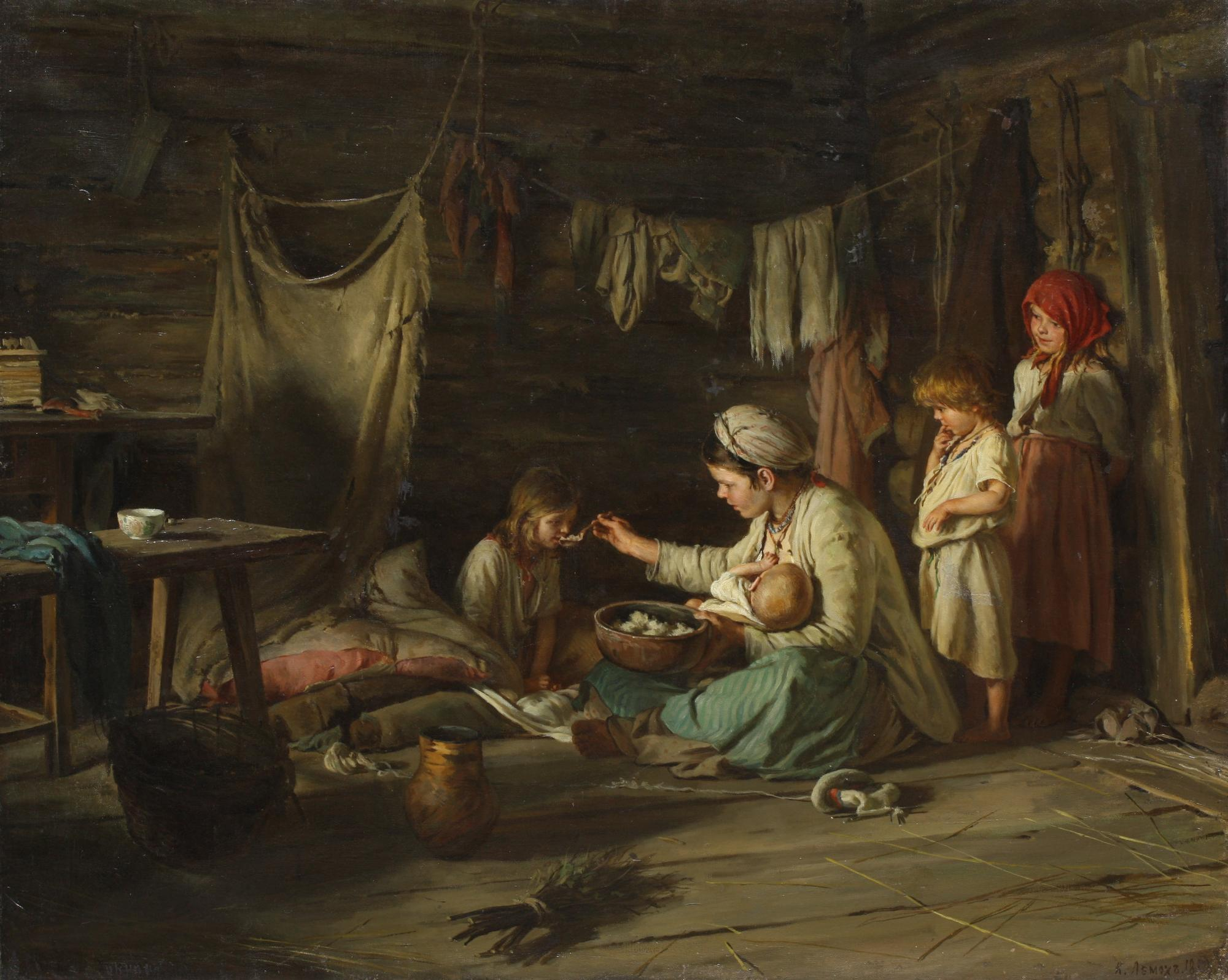 Kirill Vikentevich Lemokh (Karl Lemoch) (1841-1910) Convalescent